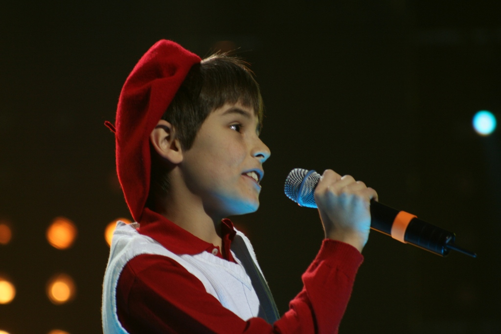 Vlad Krutskikh (Влад Крутских) at the Junior Eurovision Song Contest 2005